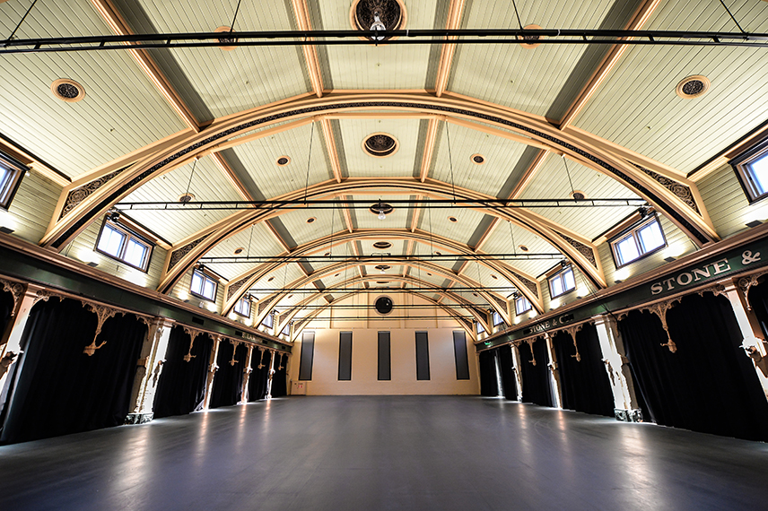 An example of the architecture space by commissioning architect George Johnson at Meat Market Melbourne. Photographed 2016.